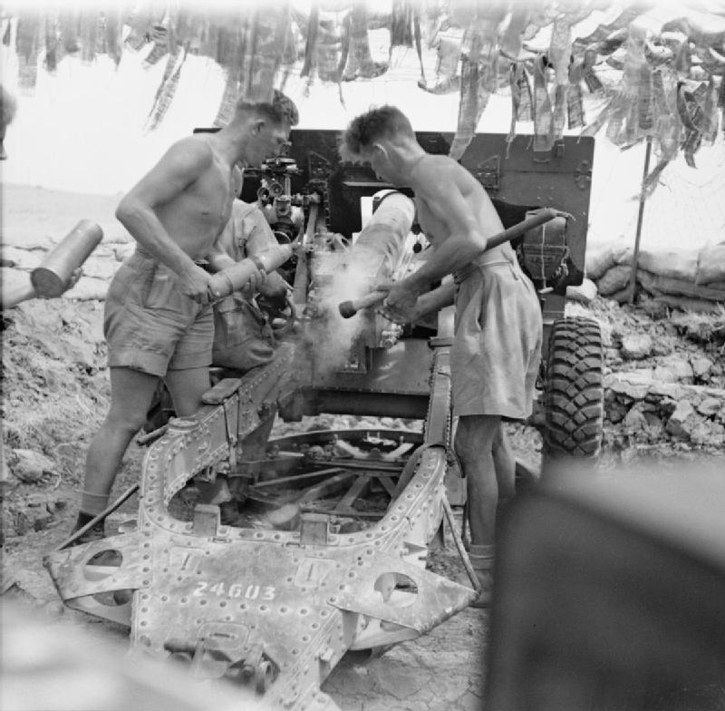 The British Army in Sicily 1943 A 25-pdr in action against German 88mm guns during the advance onto the Catania Plain from Primasole bridge, 28-29 July 1943.